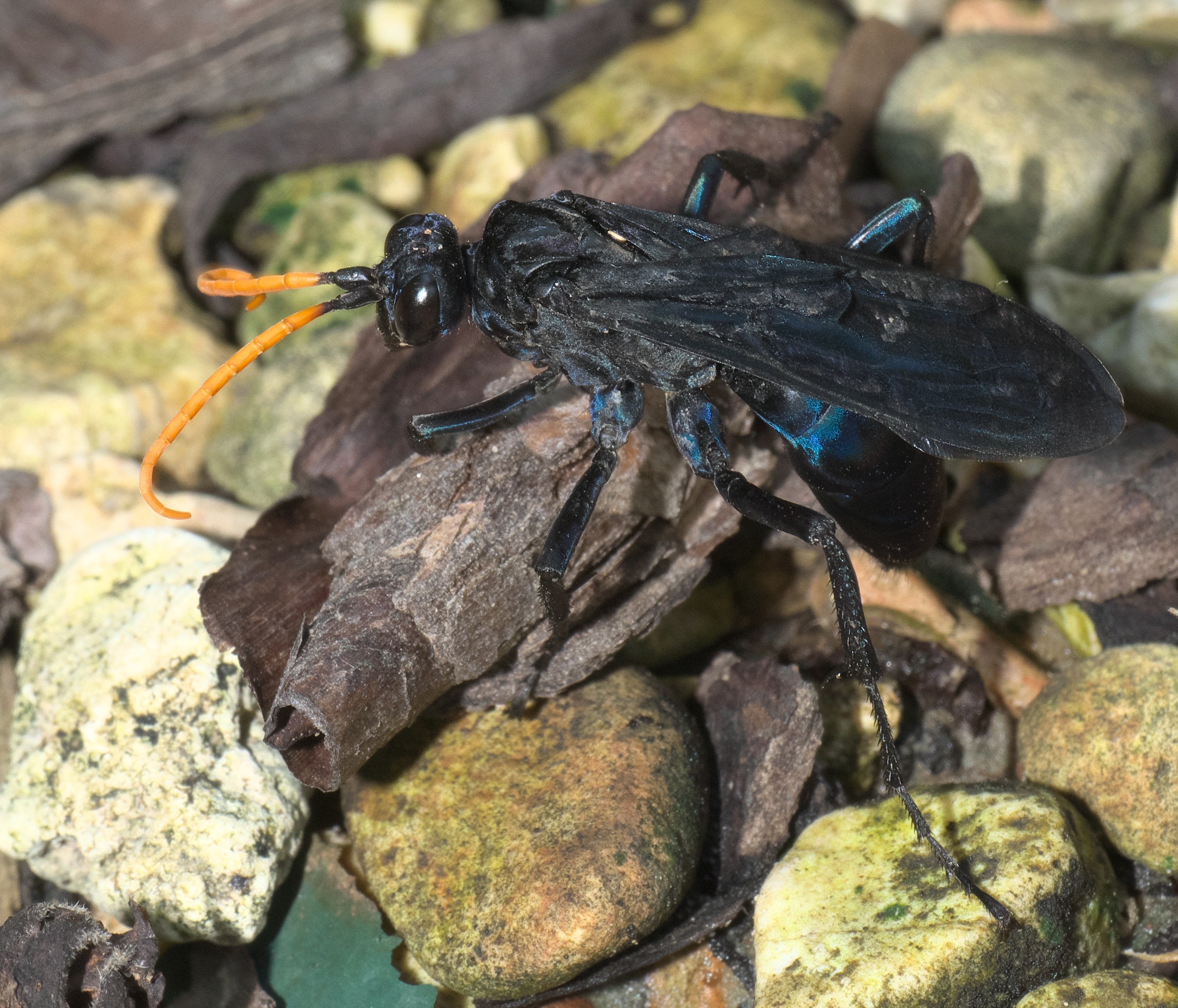 Pepsis menechma, Genus: Tarantula Hawks, female, ID Confidence: 98